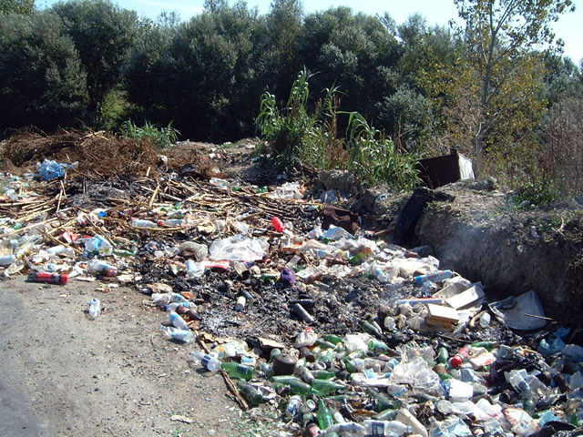 A garbage dump in Albania